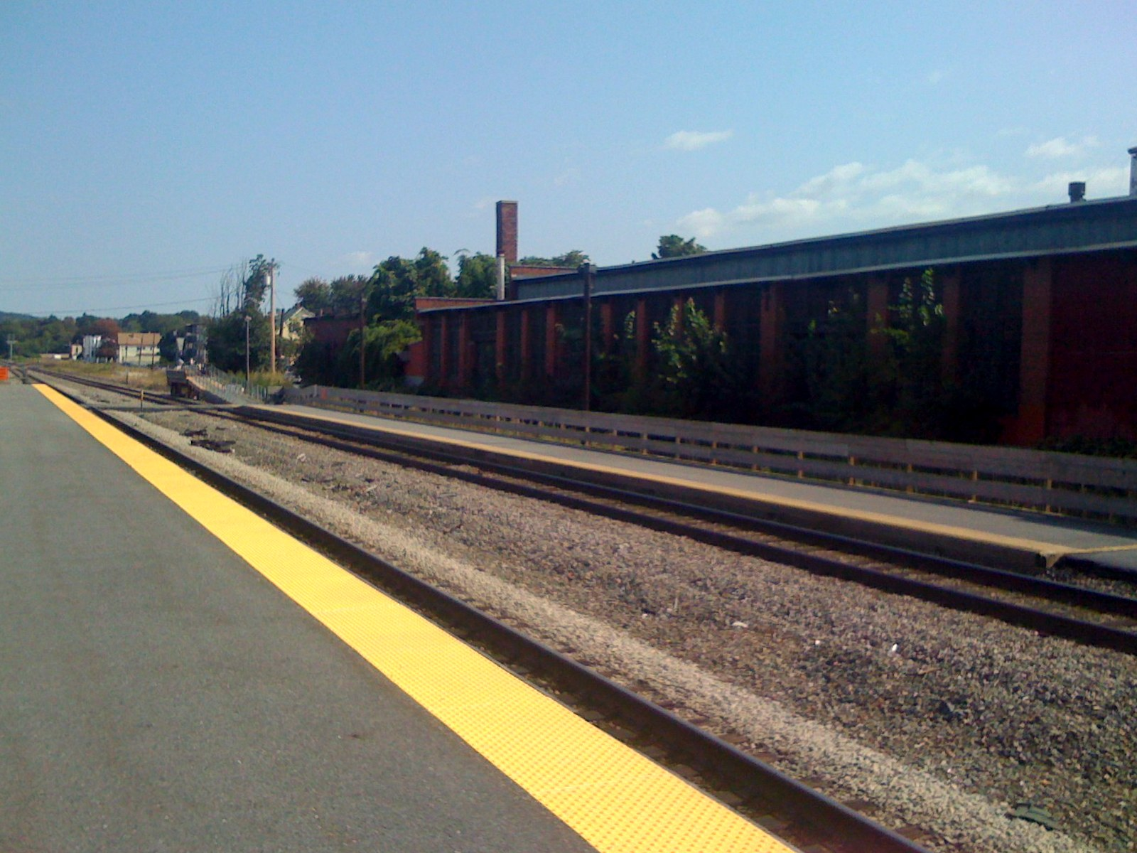 Lawrence MBTA station. This shows the temporary platform on the outbound side; it was unused when the photograph was taken and is now demolished.